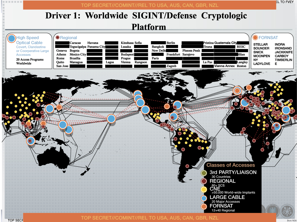 NSA document dating from 2012 explains how the agency collects information worldwide.